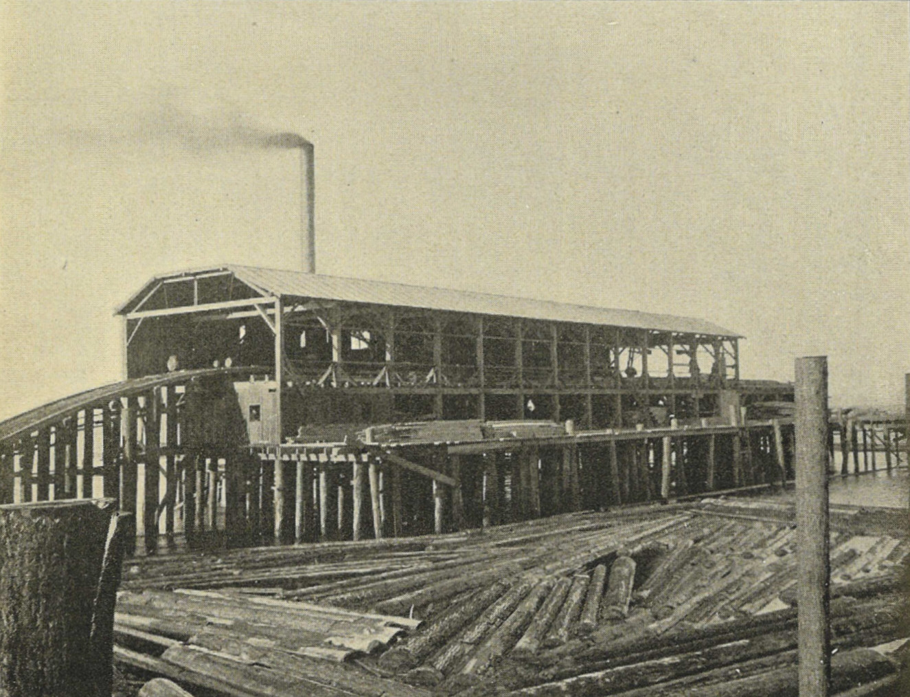 "The mill of the Kerry Lumber Co." from the brochure Seattle and the Orient (1900). According to the previous page of the same booklet, it was "recently constructed" in 1900 and stood on the waterfront "between Broad and Clay Streets": that is, on the present site of Pier 70.